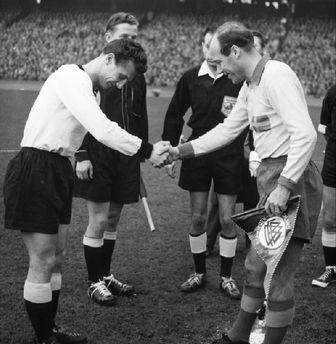 Gunnar Gren in a game aganist Germany 1957.